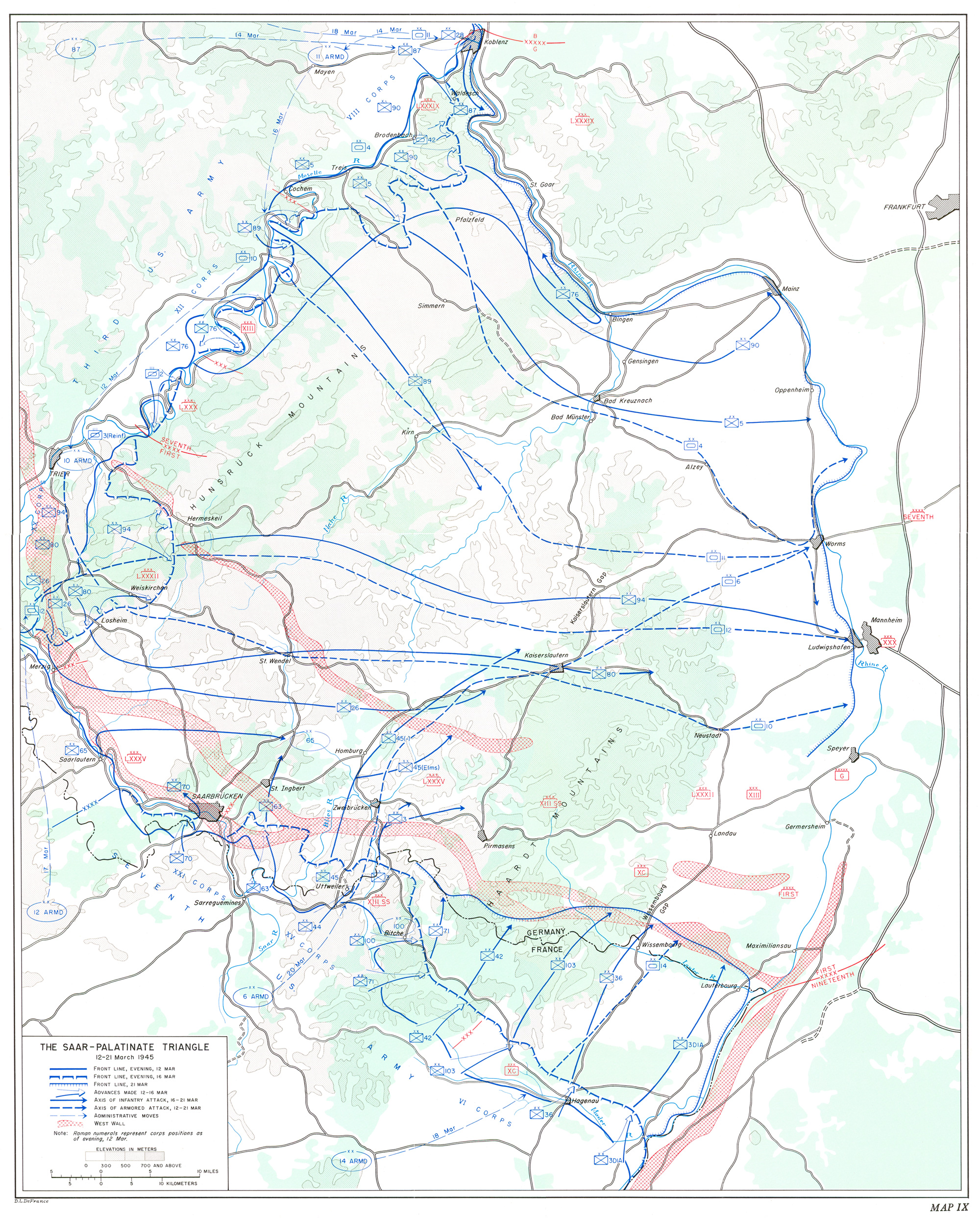 Map of Operation Undertone, 12th to 21st March 1945.